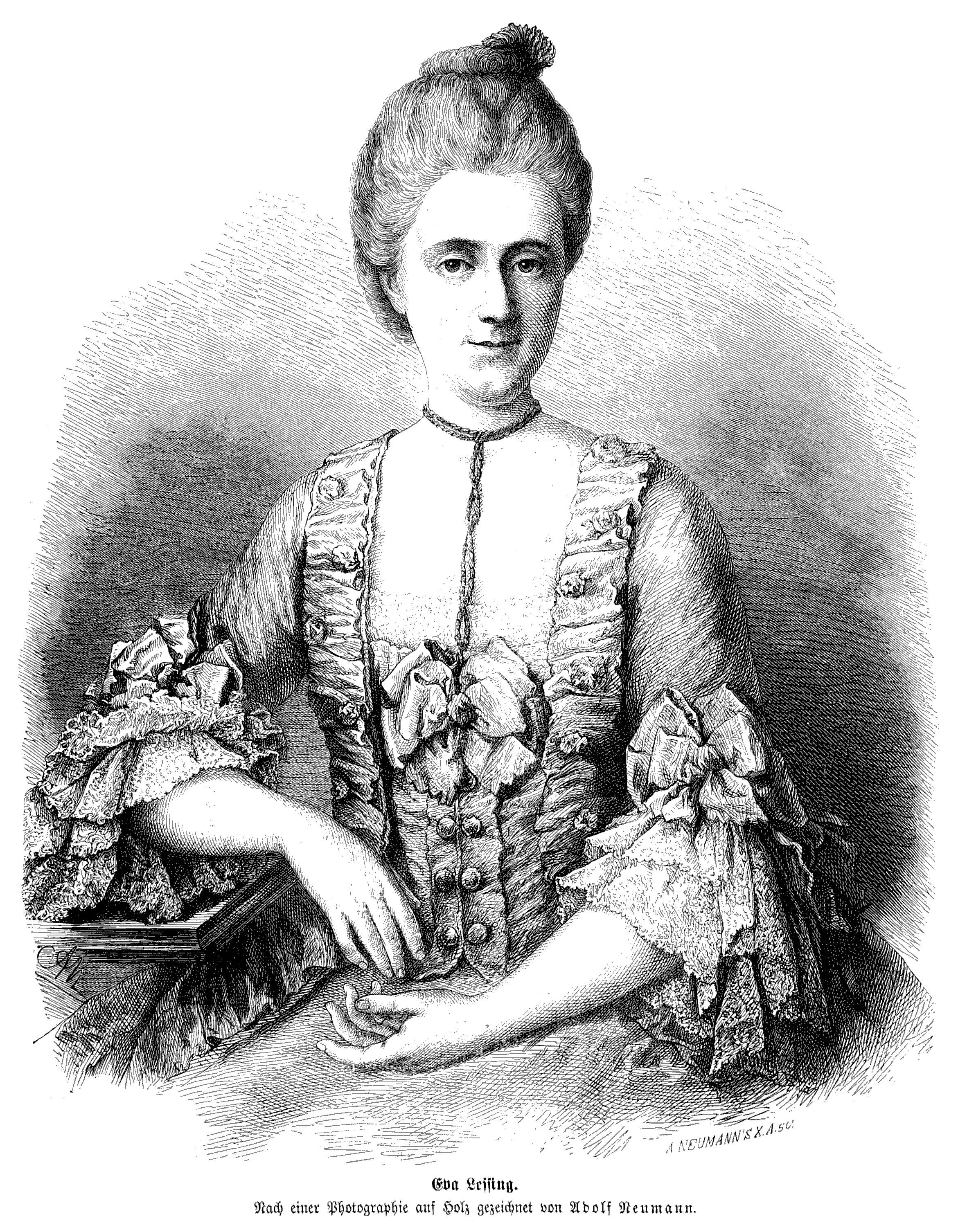 caption: "Eva Lessing. Nach einer Photographie auf Holz gezeichnet von Adolf Neumann."